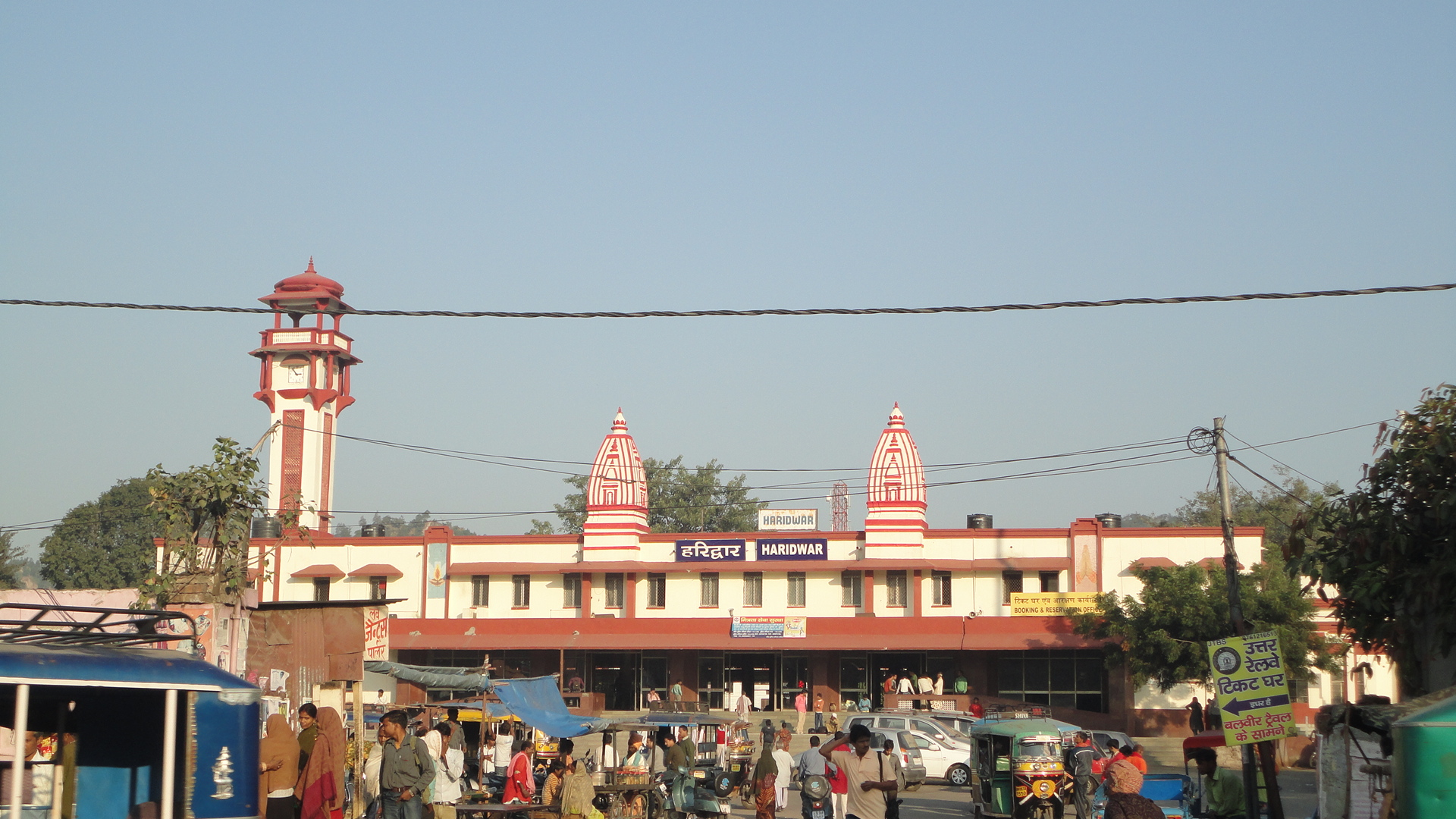 Haridwar Junction railway station, the main railway station serving Haridwar in Uttarakhand, India